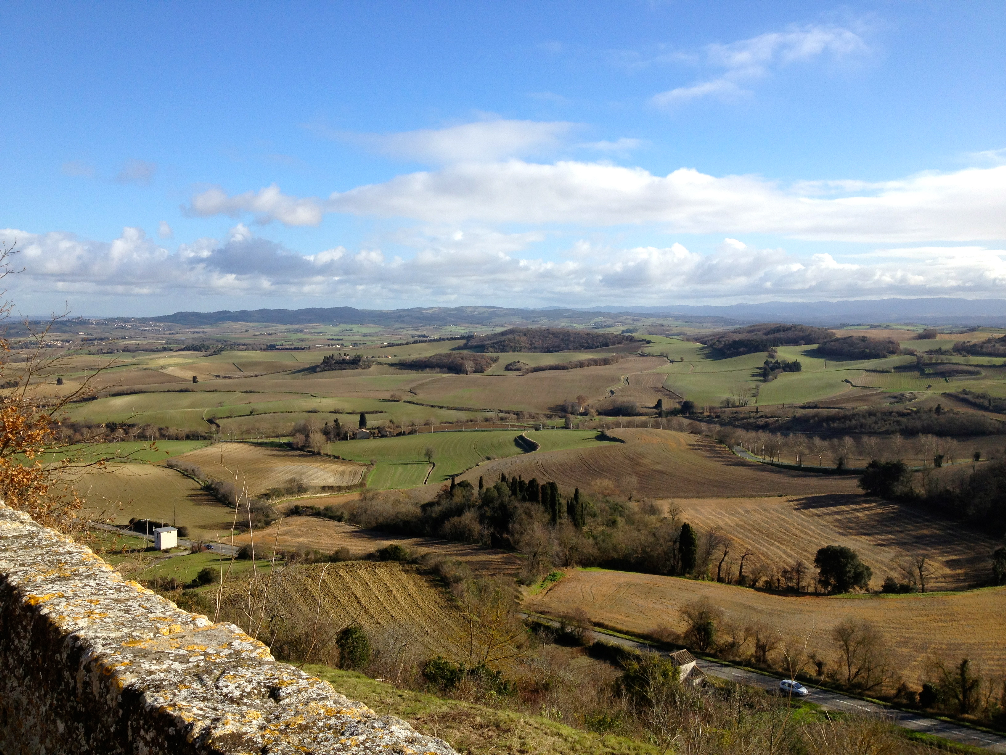 View of the countryside at Fanjeaux, Aude, France.